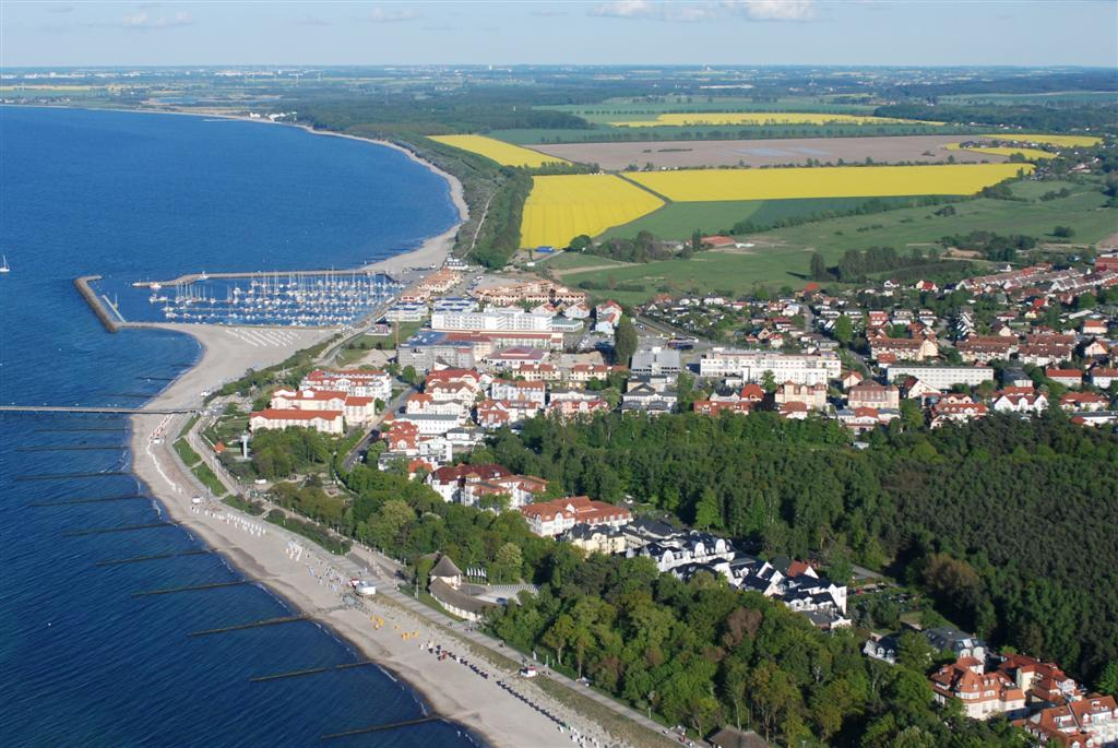 Aerial View of Kühlungsborn and its yacht harbour / marina, Mecklenburg, Germany